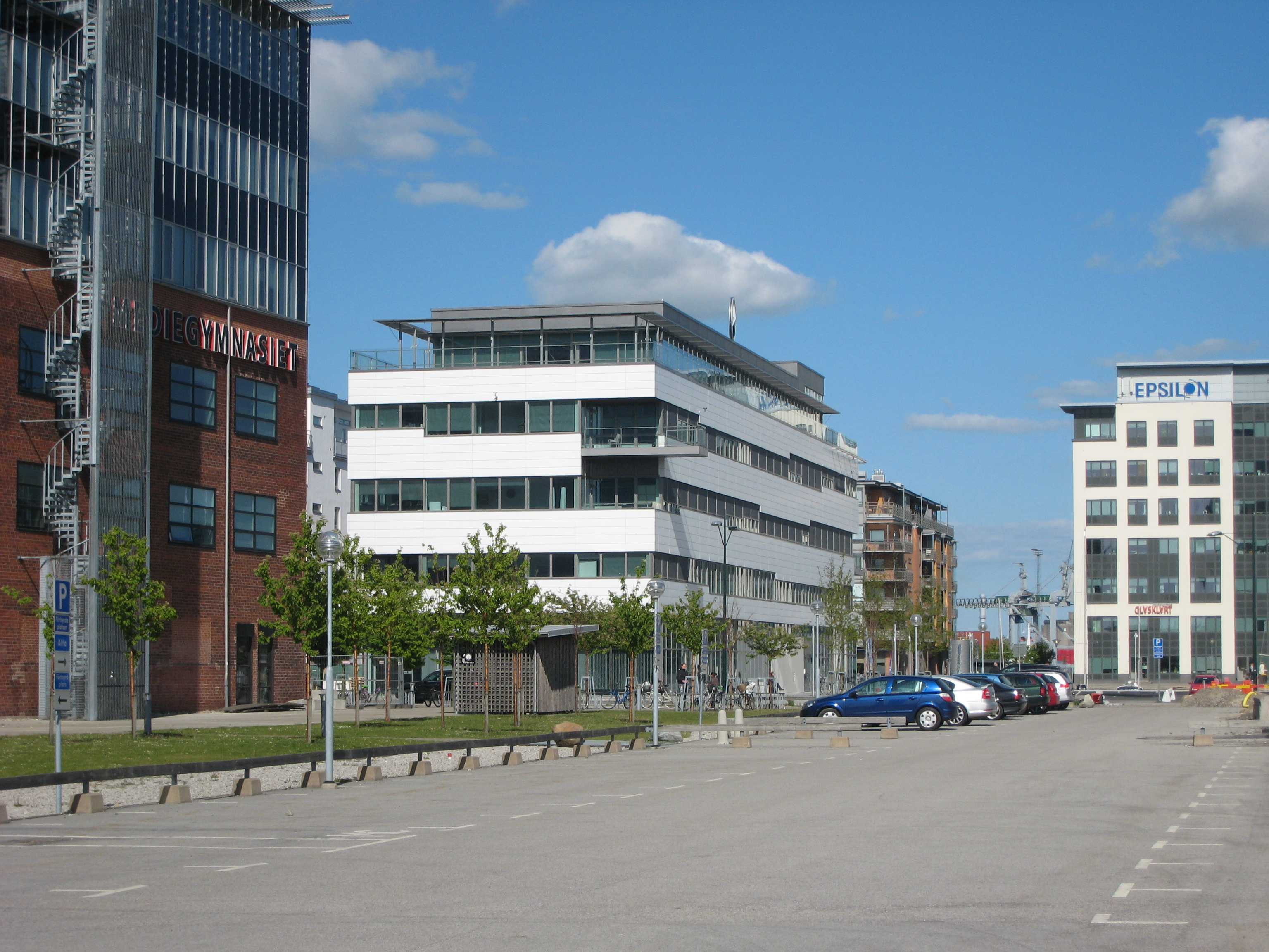 Mercedes-Benz Nordic HQ in Malmö